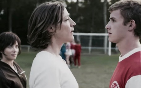 Julie Moulier (center) and Sarah Suco (left) are French actresses, here in the 2018 French film "Comme des garçons".